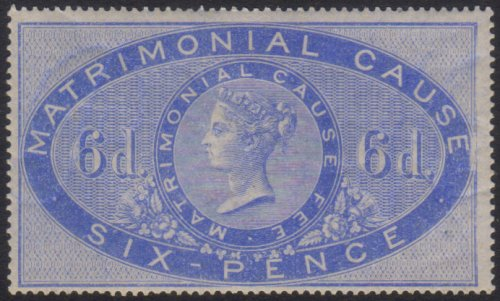 6d Matrimonial Cause revenue stamp issued in 1866 by the United Kingdom